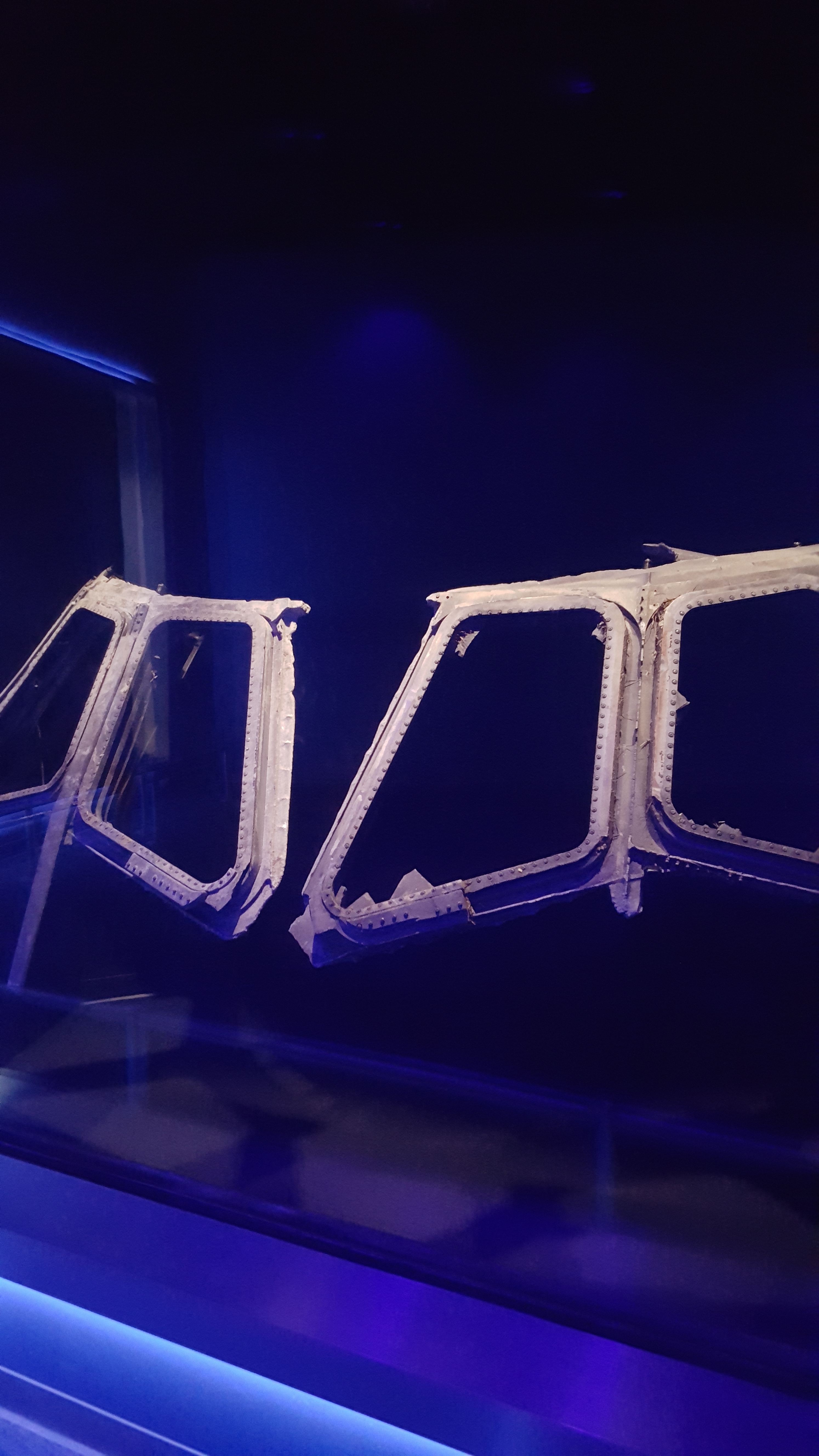 Colombia's window frames on display as part of the "Forever Remembered" installation at Kennedy Space Center Visitor Complex in 2018